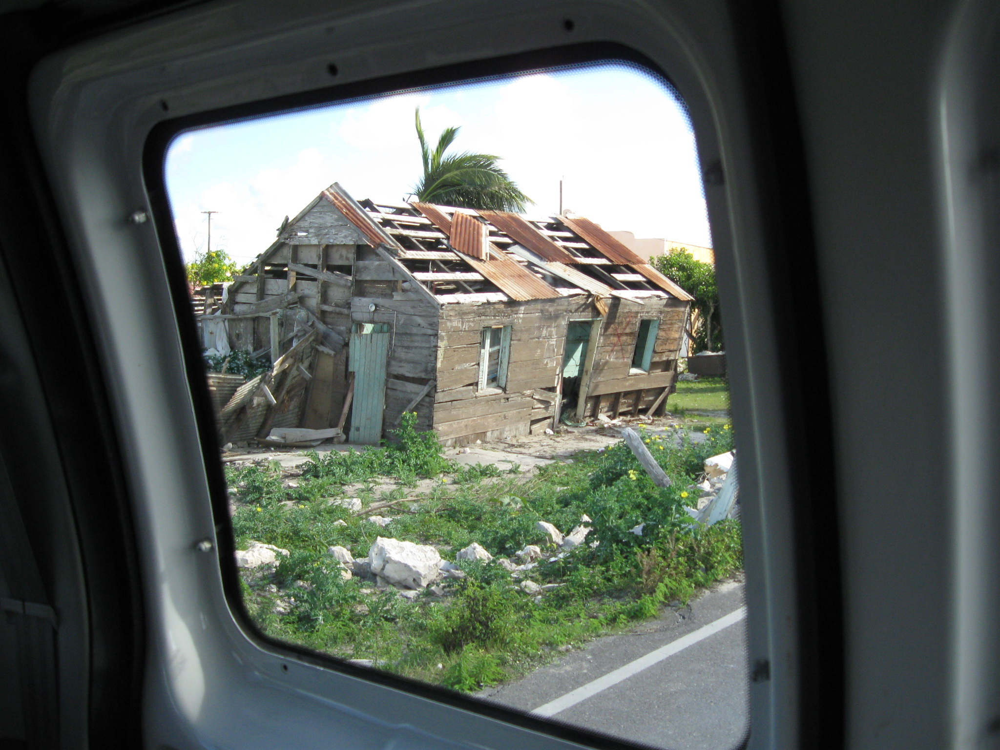 I took this picture of ruined hut on Grand Turk, which was probably damaged in Hurricane Ike.